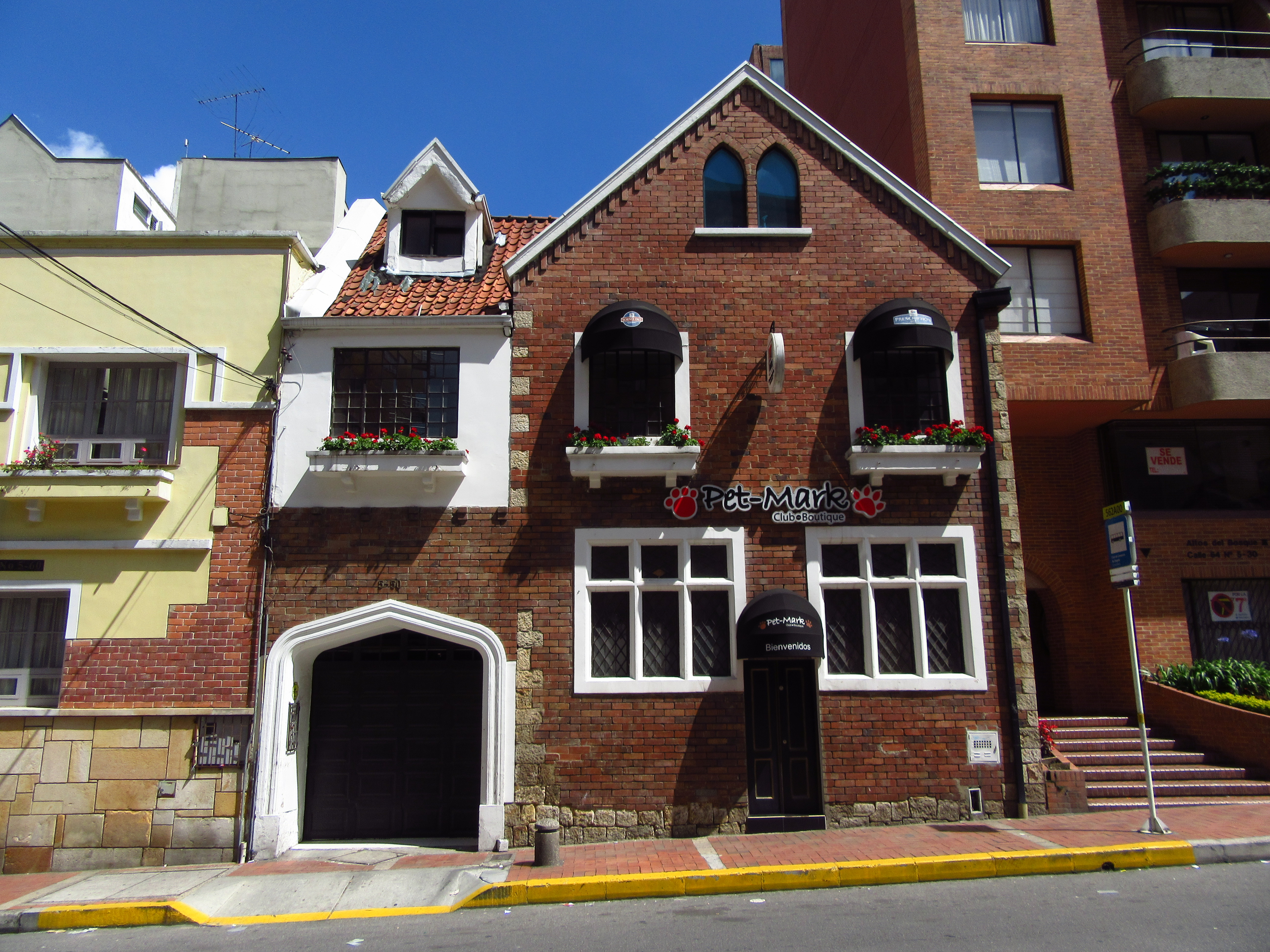 Bogotá